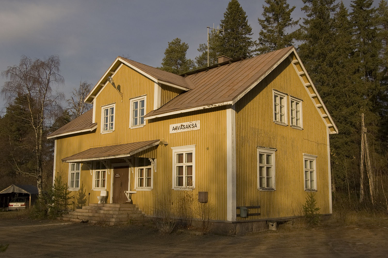 Aavasaksa railway station on the Tornio–Kolari railway, Ylitornio, Finland.